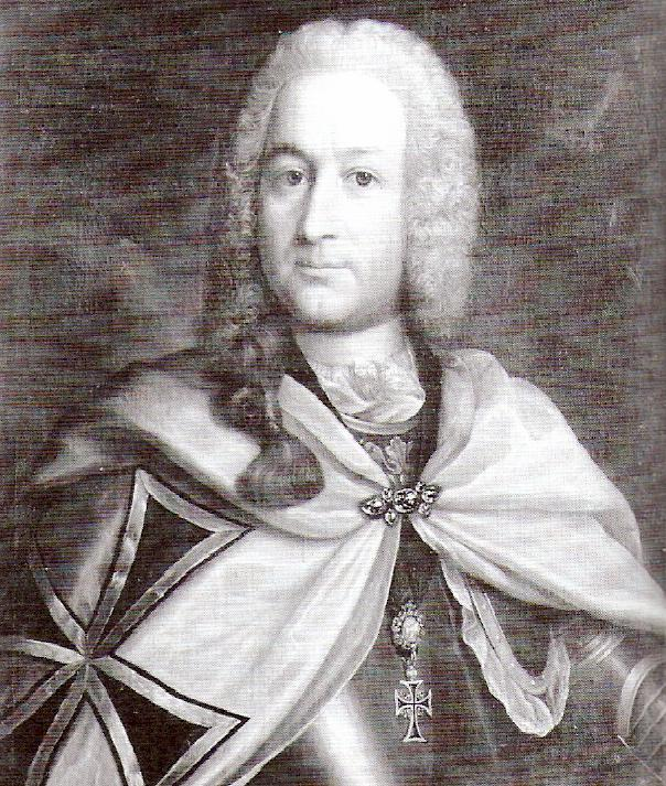 Porträt of Landkomtur Ignaz Felix von Roll zu Bernau (1719-1795)